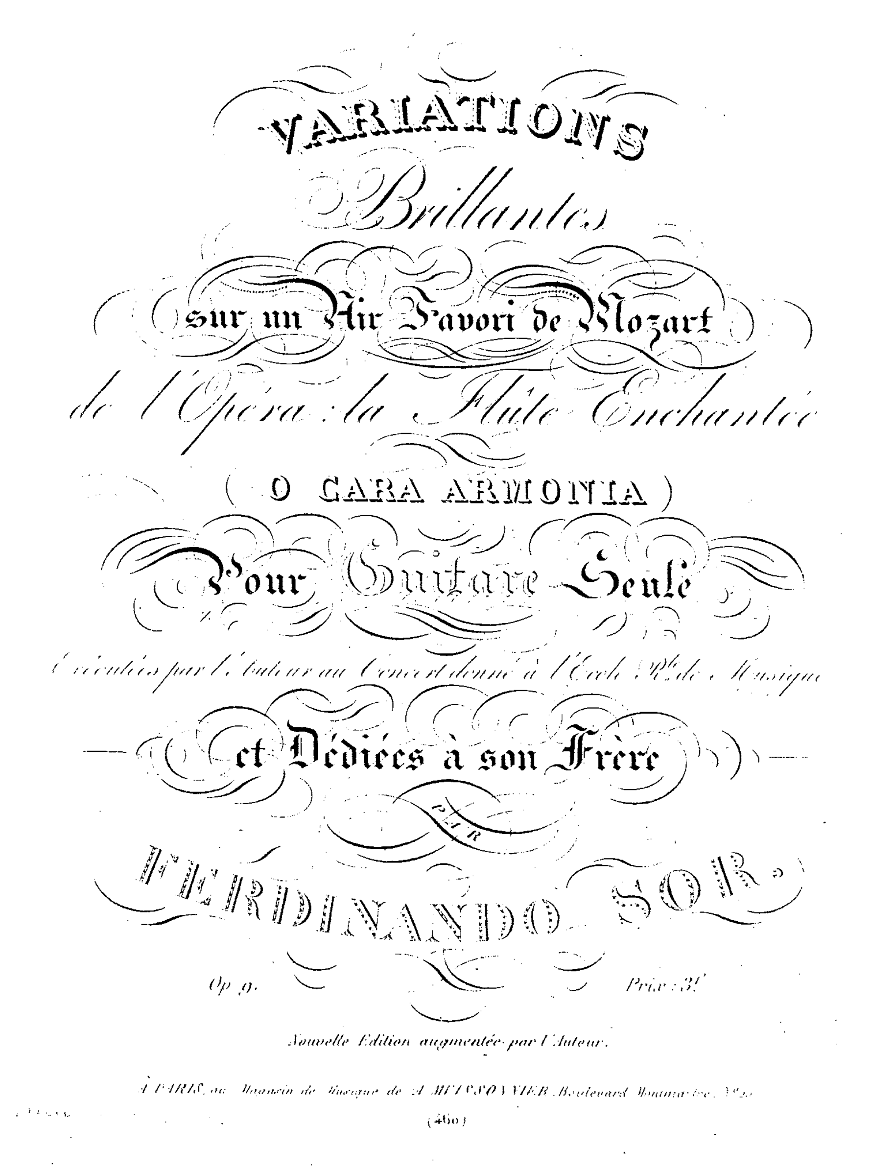 VARIATIONS Brillantes sur un Air Favori de Mozart de l'Opéra : la Flûte Enchantée (O CARA ARMONÍA) Pour Guitare Seule Exécutées par l'Auteur au Concert donné à l'Ecole Rle de Musique* et Dédiées à son Frère par FERDINANDO SOR. Op. 9 Prix: 3f. Nouvelle Edition augmentée par l'Auteur. À Paris, au Magazin de Musique de A MEISSONNIER, Boulevard Montmartre, № 25. *l'Ecole Royale de Musique